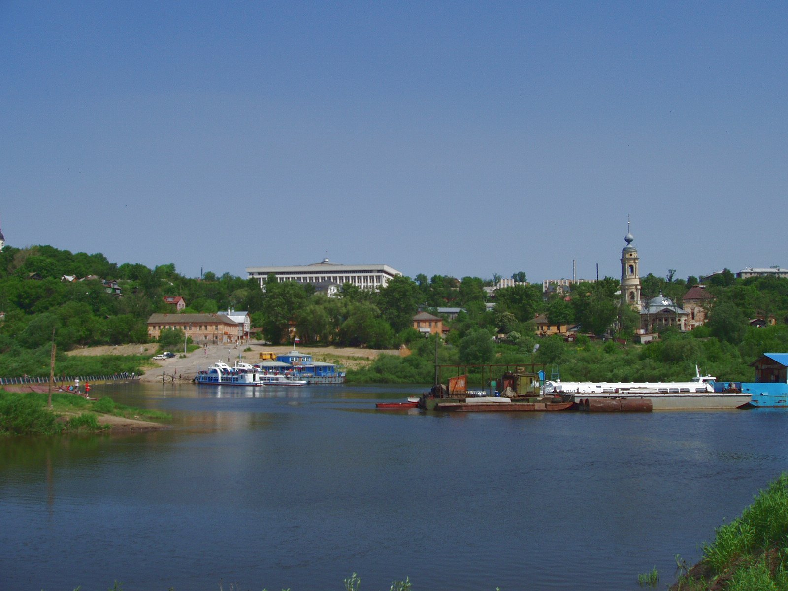 Kaluga, city in Russian Federation